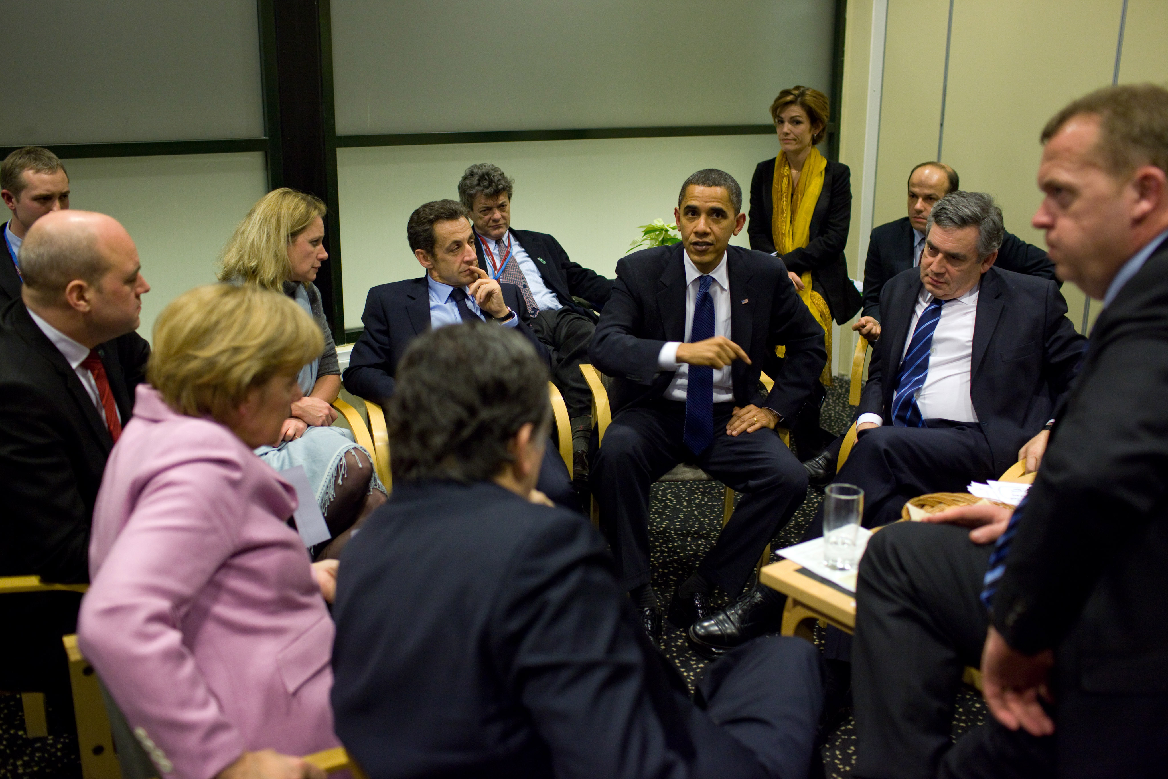 President Barack Obama briefs European leaders, including British Prime Minister Gordon Brown, French President Nicolas Sarkozy, Swedish Prime Minister Fredrik Reinfeldt, German Chancellor Angela Merkel, European Union Commission President Jose Manuel Barroso, and Danish Prime Minister Lars L. Rasmussen, following a multilateral meeting at the United Nations Climate Change Conference in Copenhagen, Denmark, Dec. 18, 2009. In the background, behind French and US presidents, Frenchs ministers, Jean-Louis Boorlo and Chantal Jouanno.